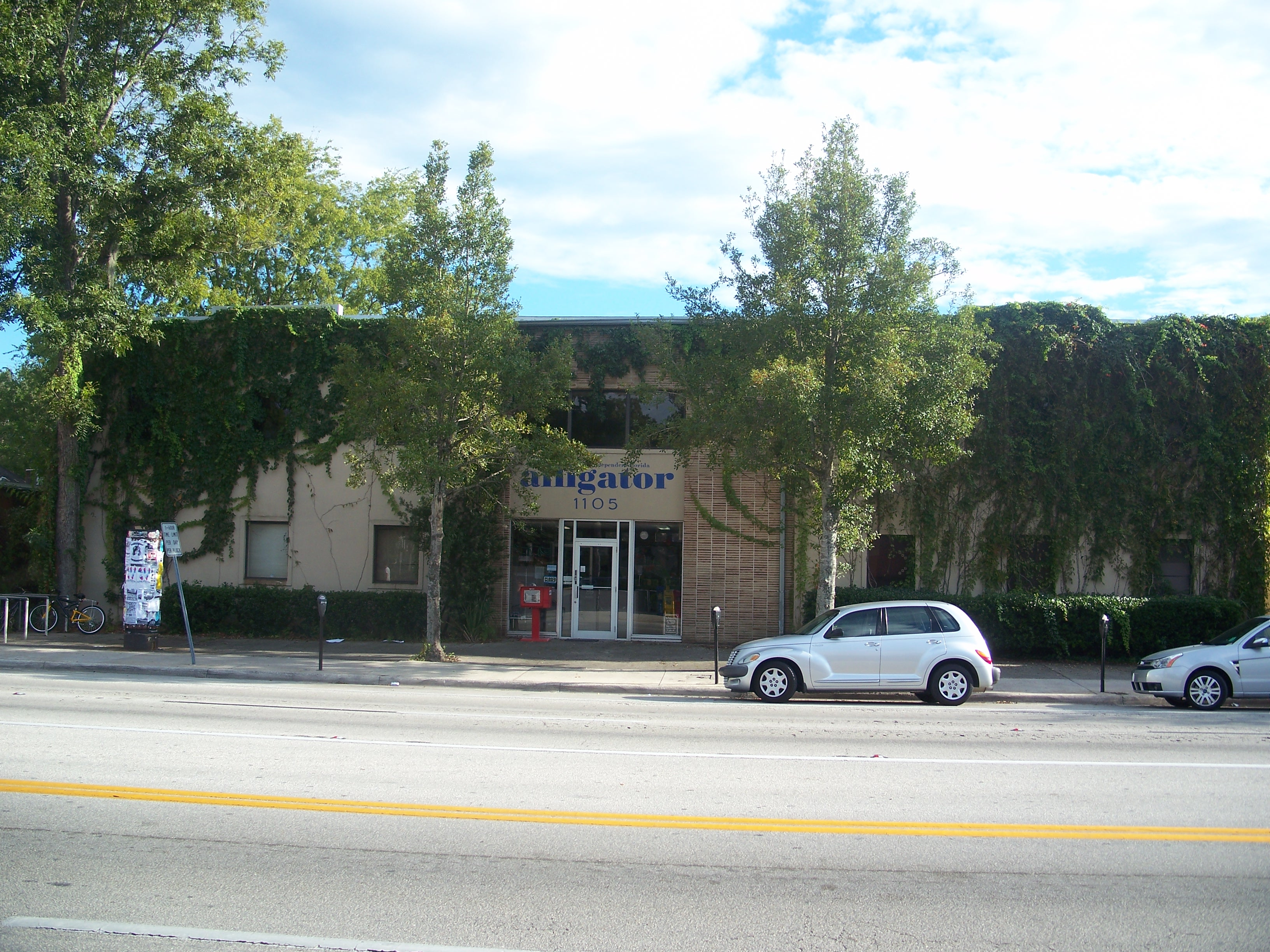 Gainesville, Florida: Independent Florida Alligator building, on University Avenue.